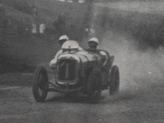 The Austin 7 of Cyril Dickason competing in the 1931 Australian Grand Prix.